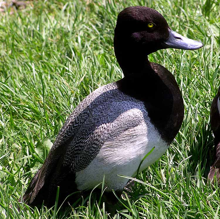 Lesser Scaup at Slimbridge Wildfowl and Wetlands Centre, Slimbridge, Gloucestershire, England. Taken by Adrian Pingstone in June 2004 and released to the public domain.